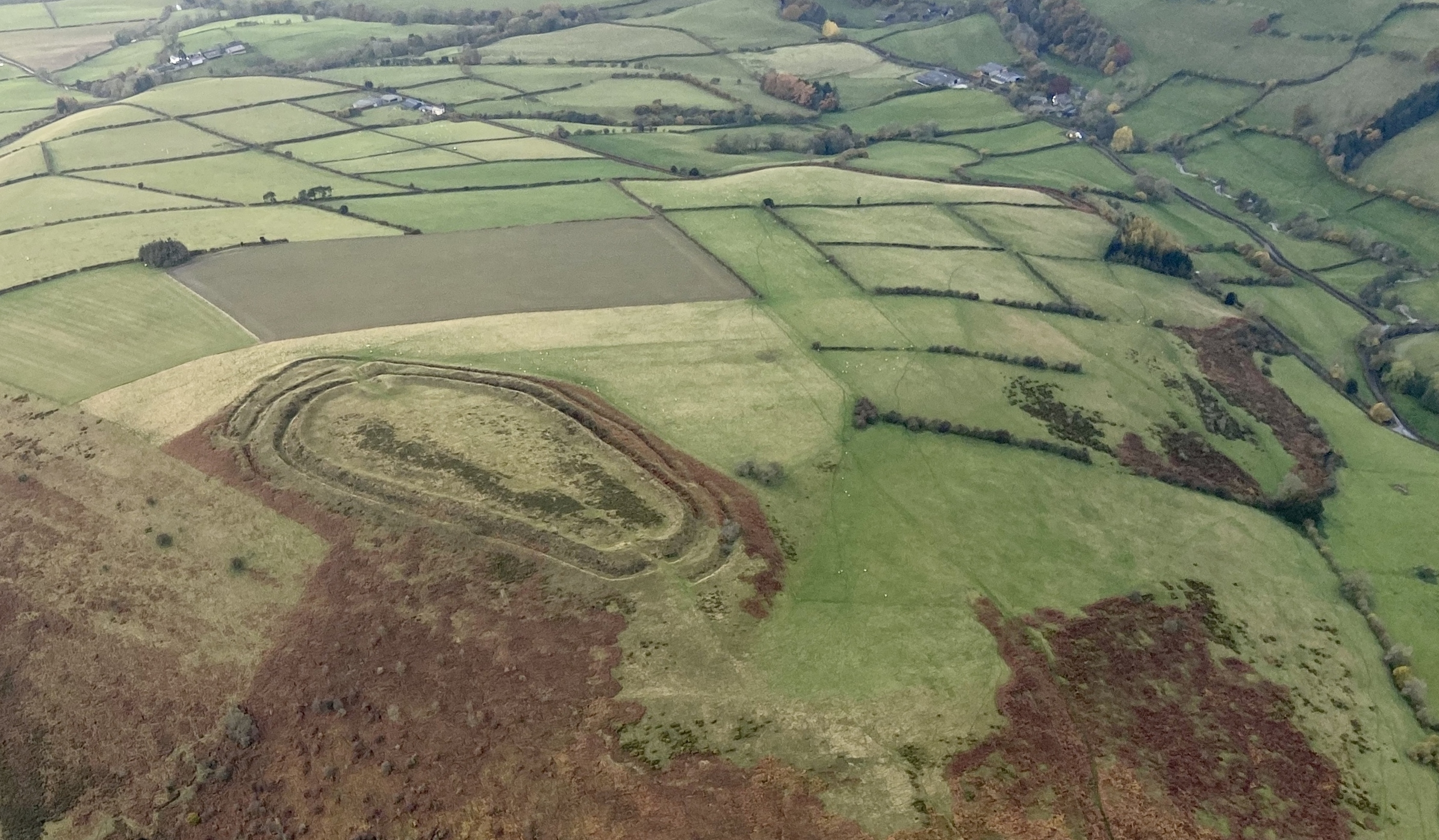 An aerial photo of an Iron Age Hill Fort on the Wales / England border